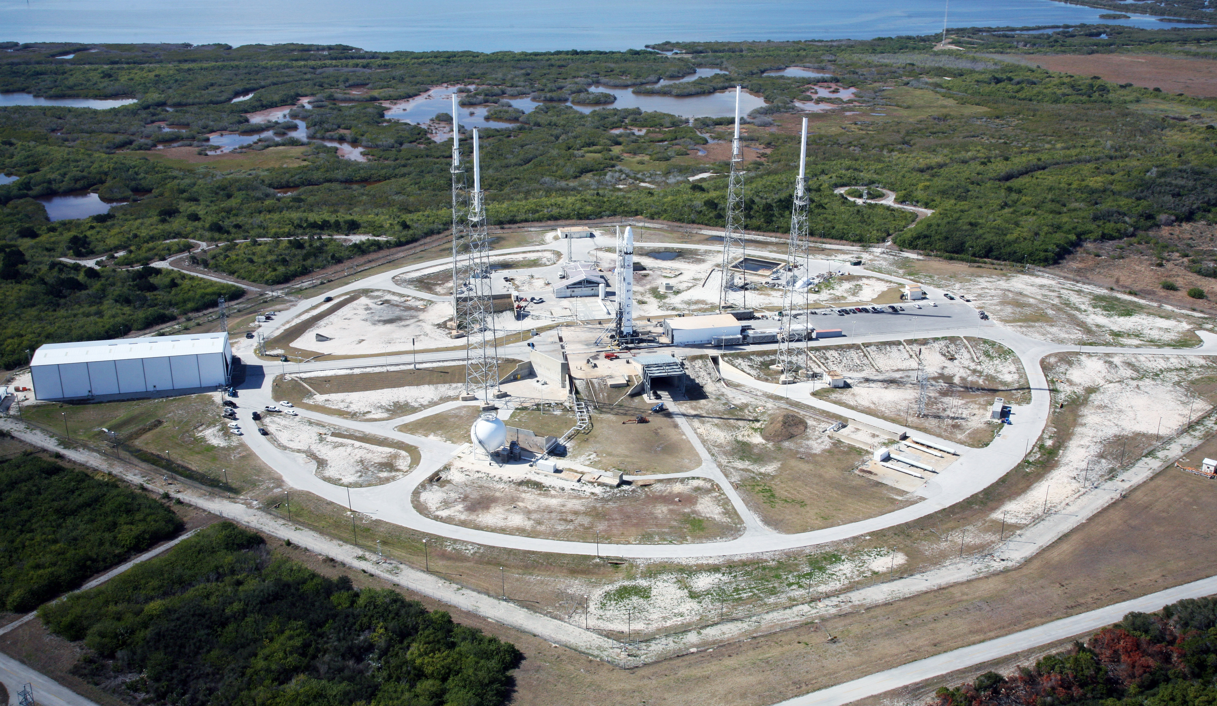 Aerial view of Falcon 9 with Dragon qualification spacecraft on the launch pad at Space Launch Complex 40 (SLC-40) at the Cape Canaveral Air Force Station. The site had previously been used by the U.S. Air Force to launch Titan rockets.